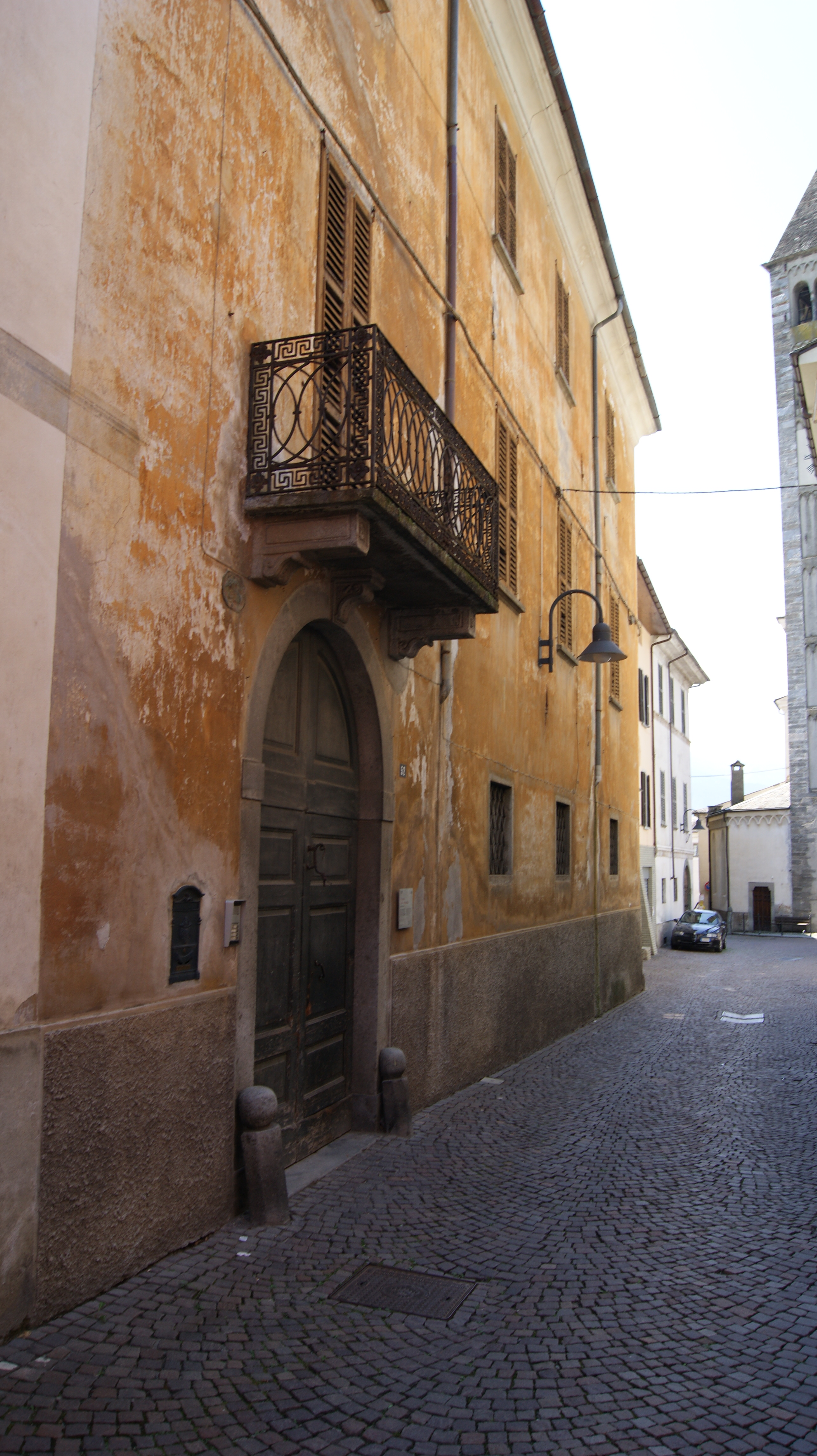 Old town of Tirano (Sondrio), Italy. Palazzo Noli Pradelle